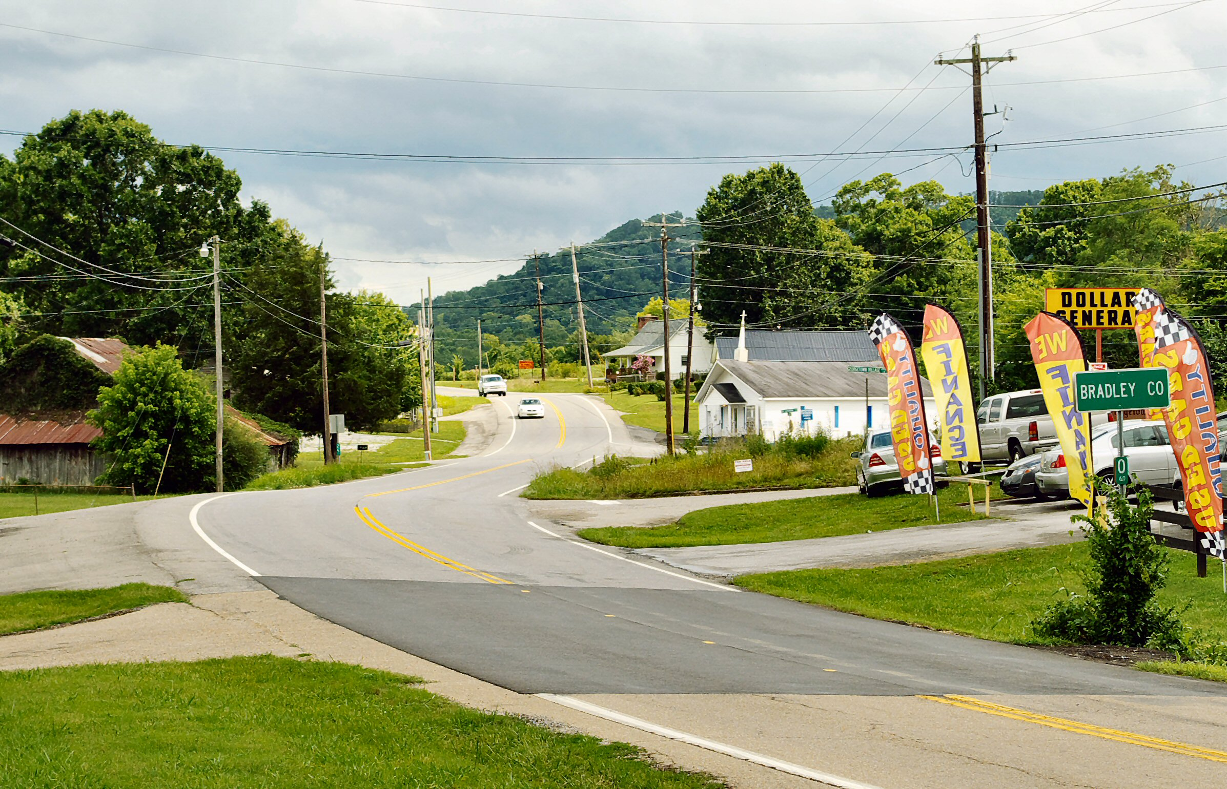 Tennessee State Route 60 at the Bradley County/Hamilton County line in Georgetown, Tennessee, United States.